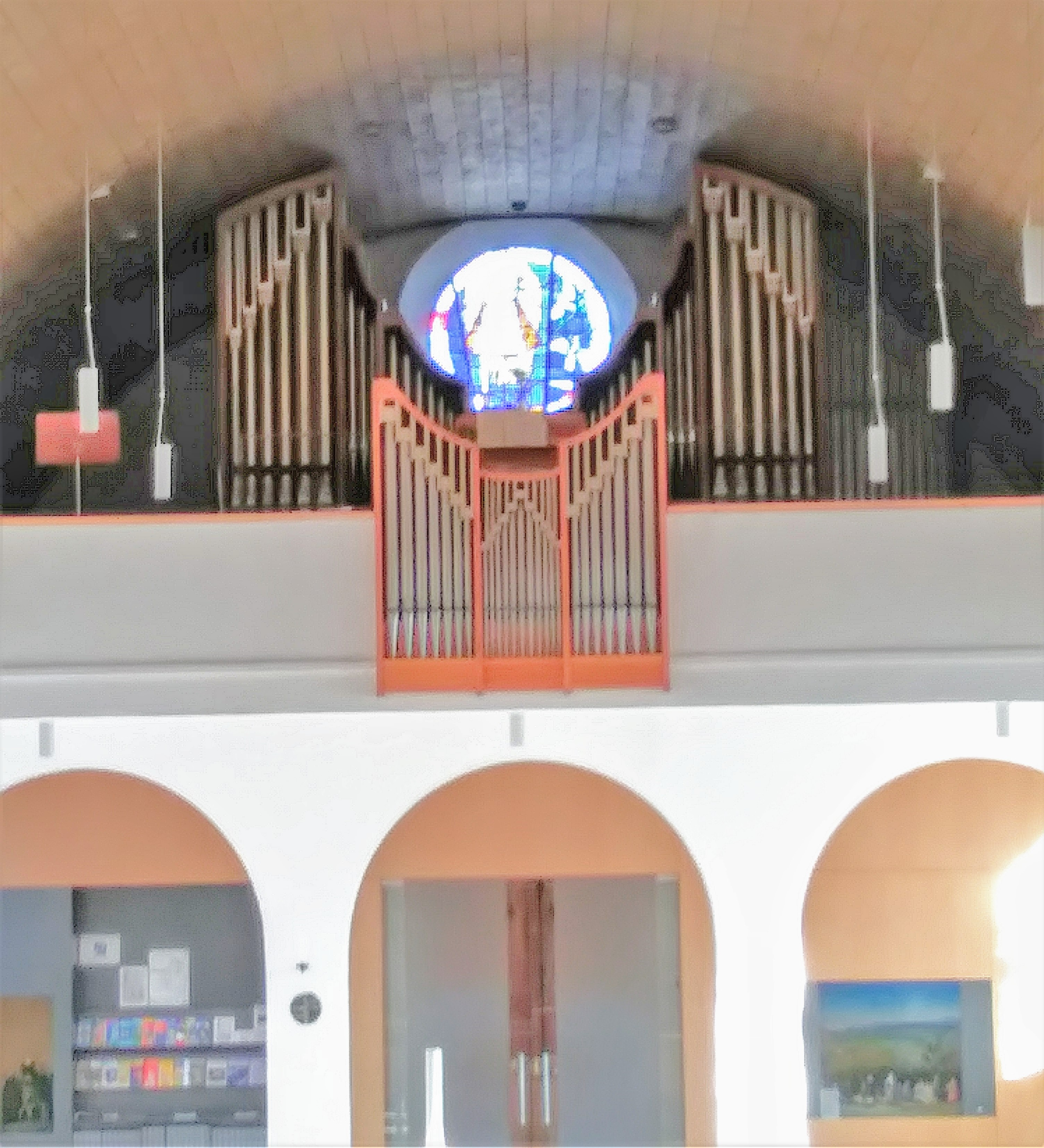 Katholische Kirche St. Alto in Unterhaching (Garhammer-Orgel)